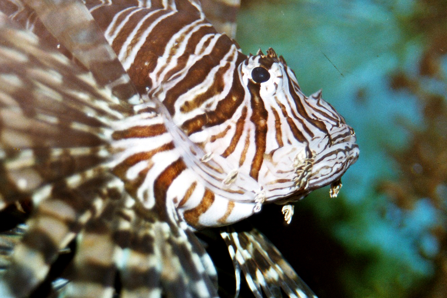 Shown is the head of Broadbarred firefish (Lionfish), family "Scopaenidae"